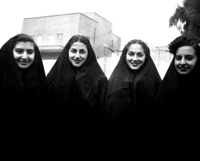 يهوديات عرقيات